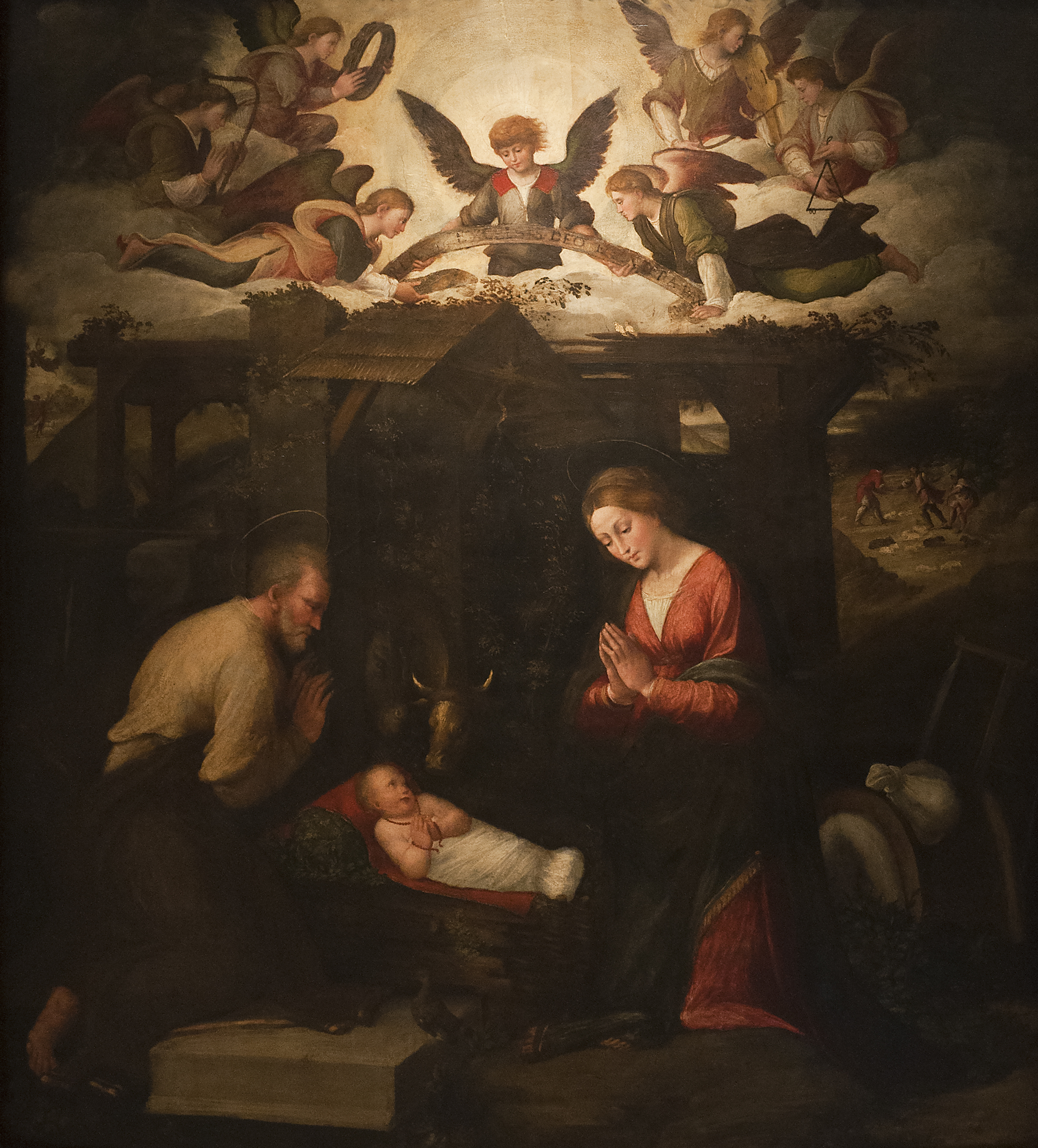 Biagio Pupini (1490-1575) Nativity (1525) - Bologna Pinacoteca Nazionale